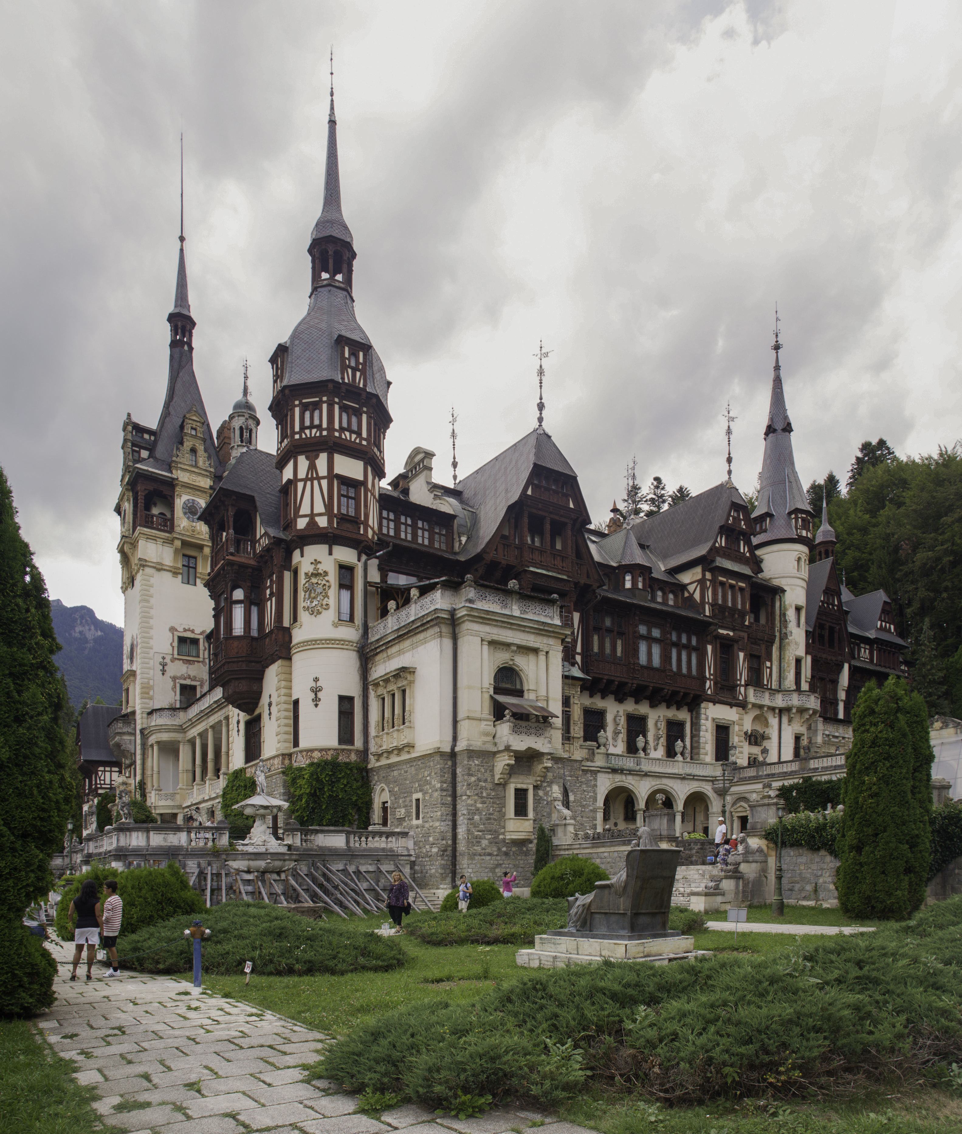 Peleș castle, Romania, view from the surrounding garden. 01